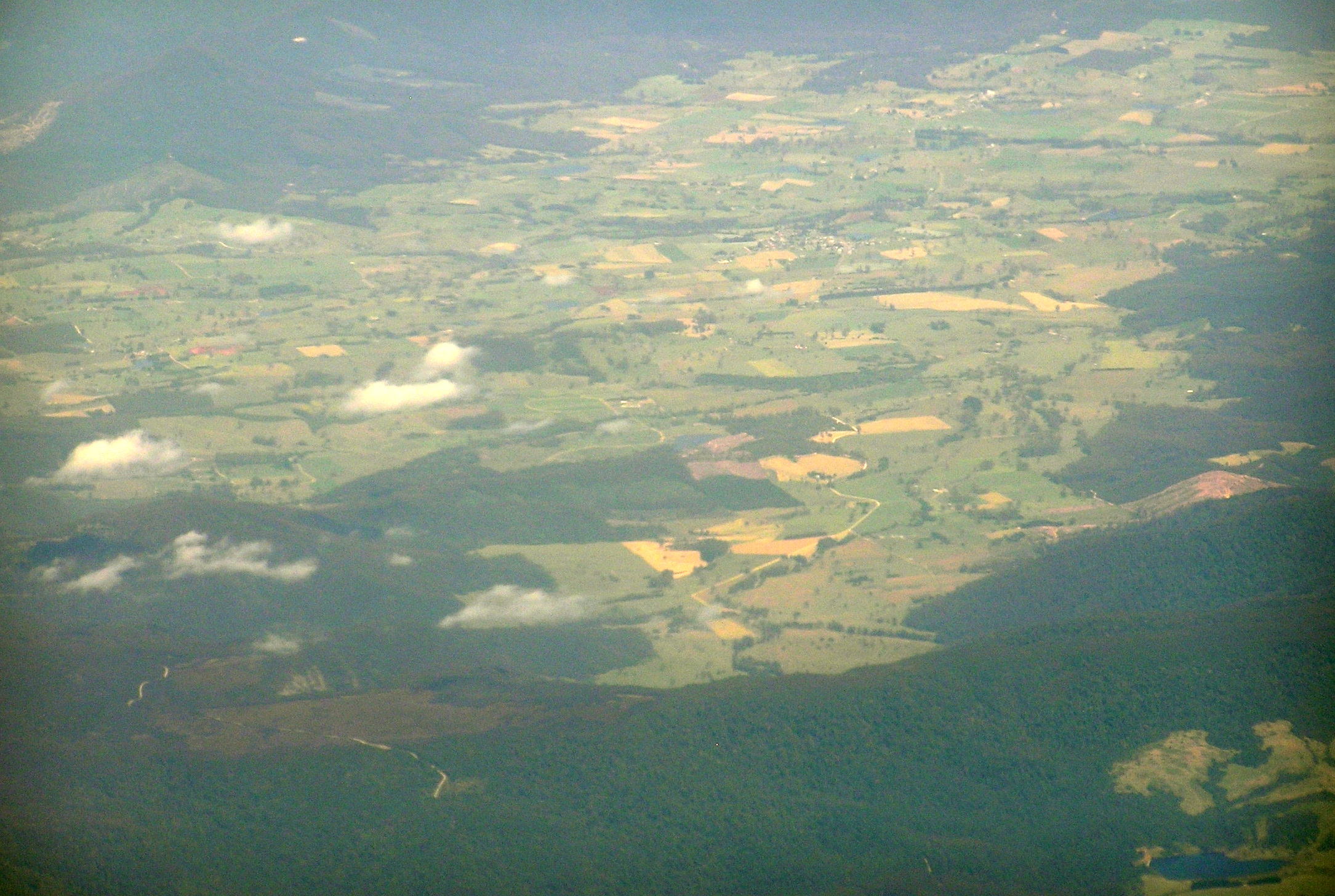 aerial photo of Ringarooma. The village is slightly above the right of centre. Also here are hamlets: Legerwood Legunia Alberton Talawa Trenah.